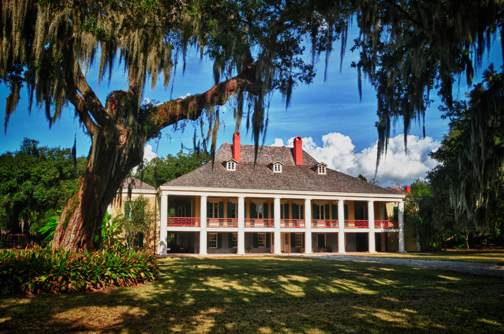 Constructed in 1780-1790 for Robert de Logny and inherited by Jean Noel d'Estrehan in 1800, the plantation was eventually bought by a petroleum company and then donated to a historical society.